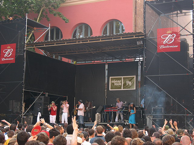 Fat Freddy's Drop @ Sonar tour "Hope for a Generation" 2006